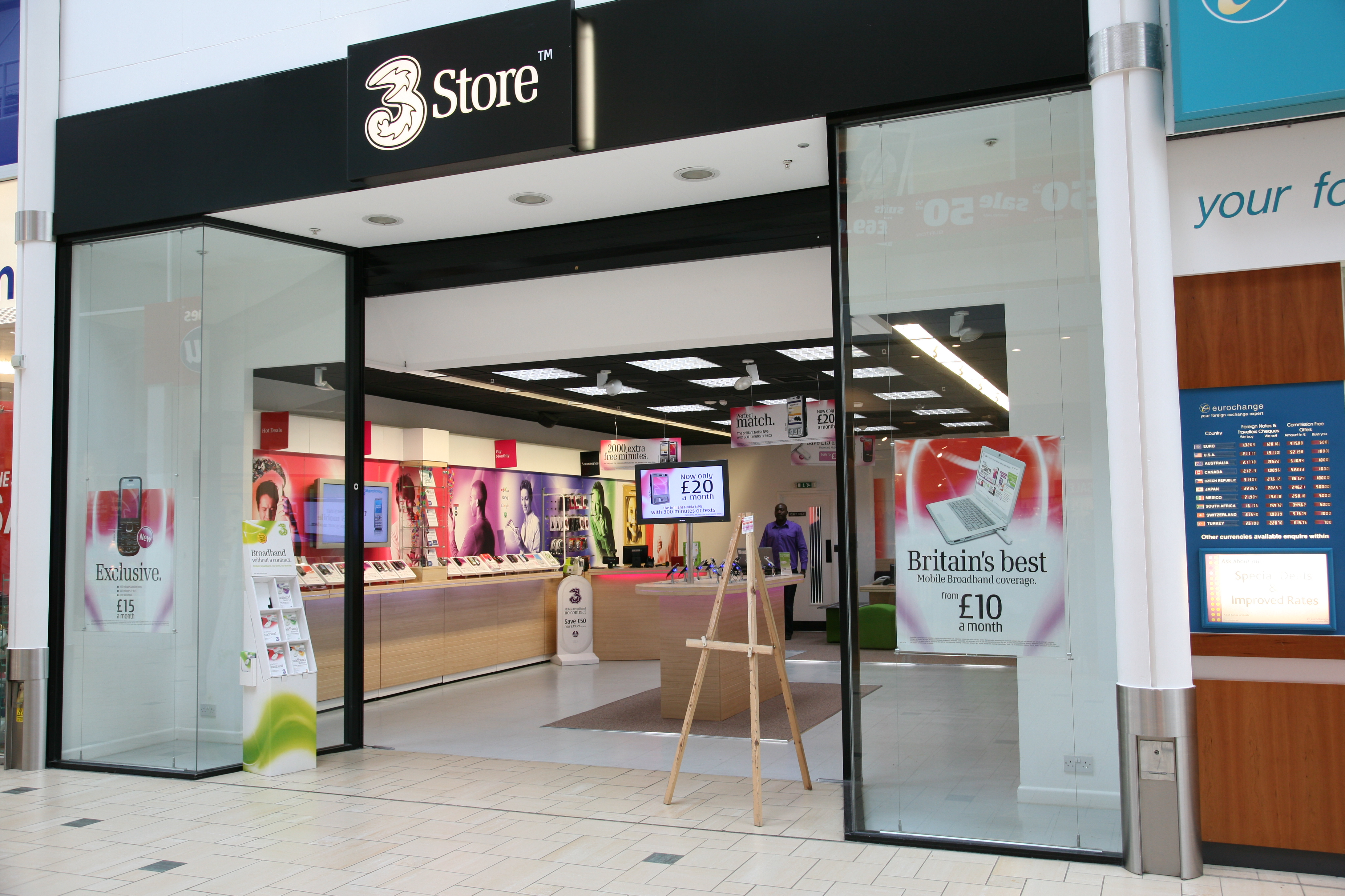 3 Store (Hutchison mobile phone shop) in Banbury, UK, photographed by Stratford490.